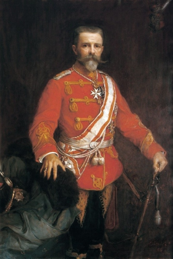 Prince Viktor zu Hohenlohe-Schillingsfürst, Fürst von Corvey, 2nd Duke of Ratibor